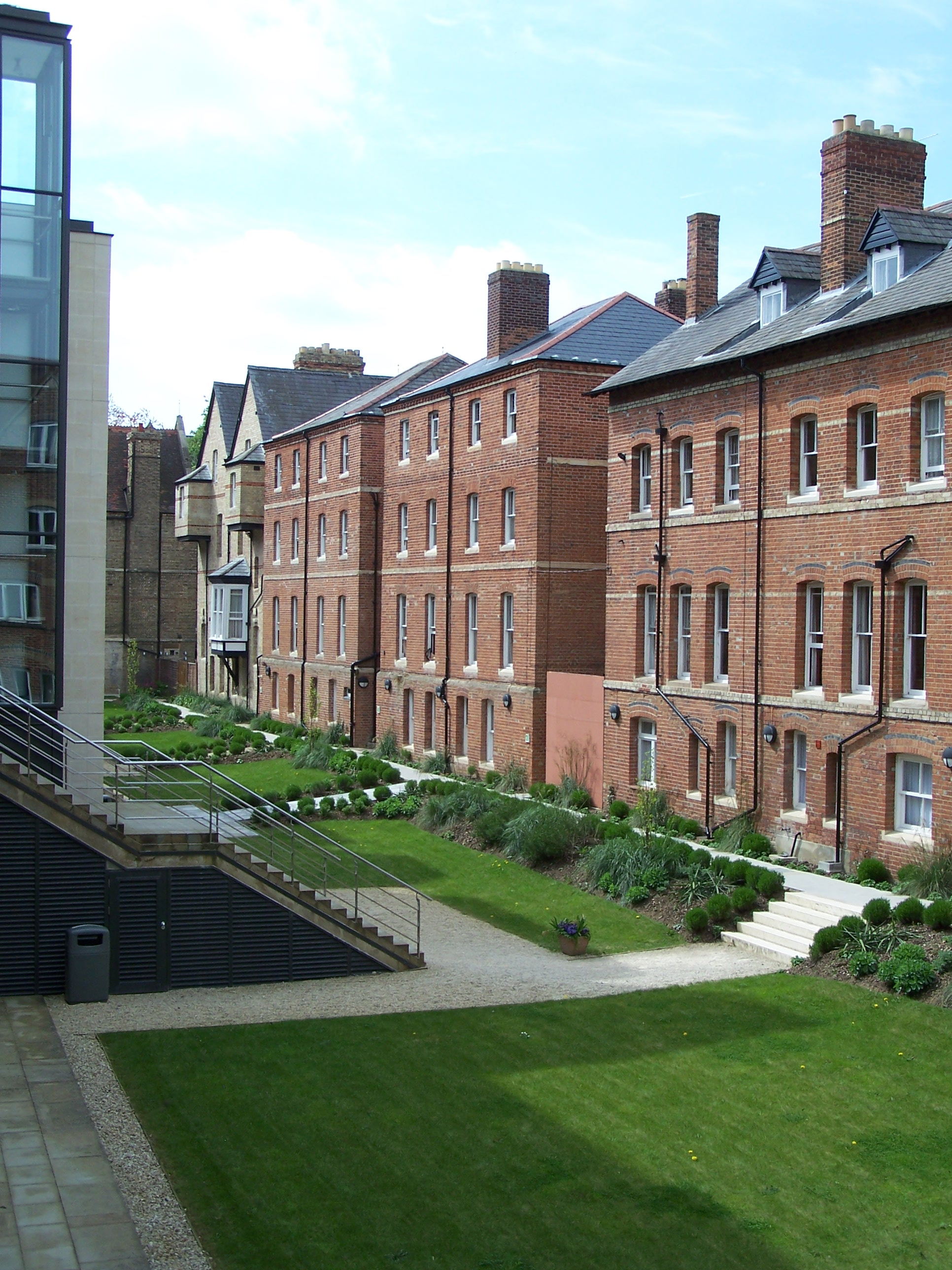 The rear of the properties on the south side of Bevington Road, Oxford. Viewed from above the gardens. To the left of the shot can also be seen the edge of the Ruth Deech Building and 58/60 Woodstock Road.